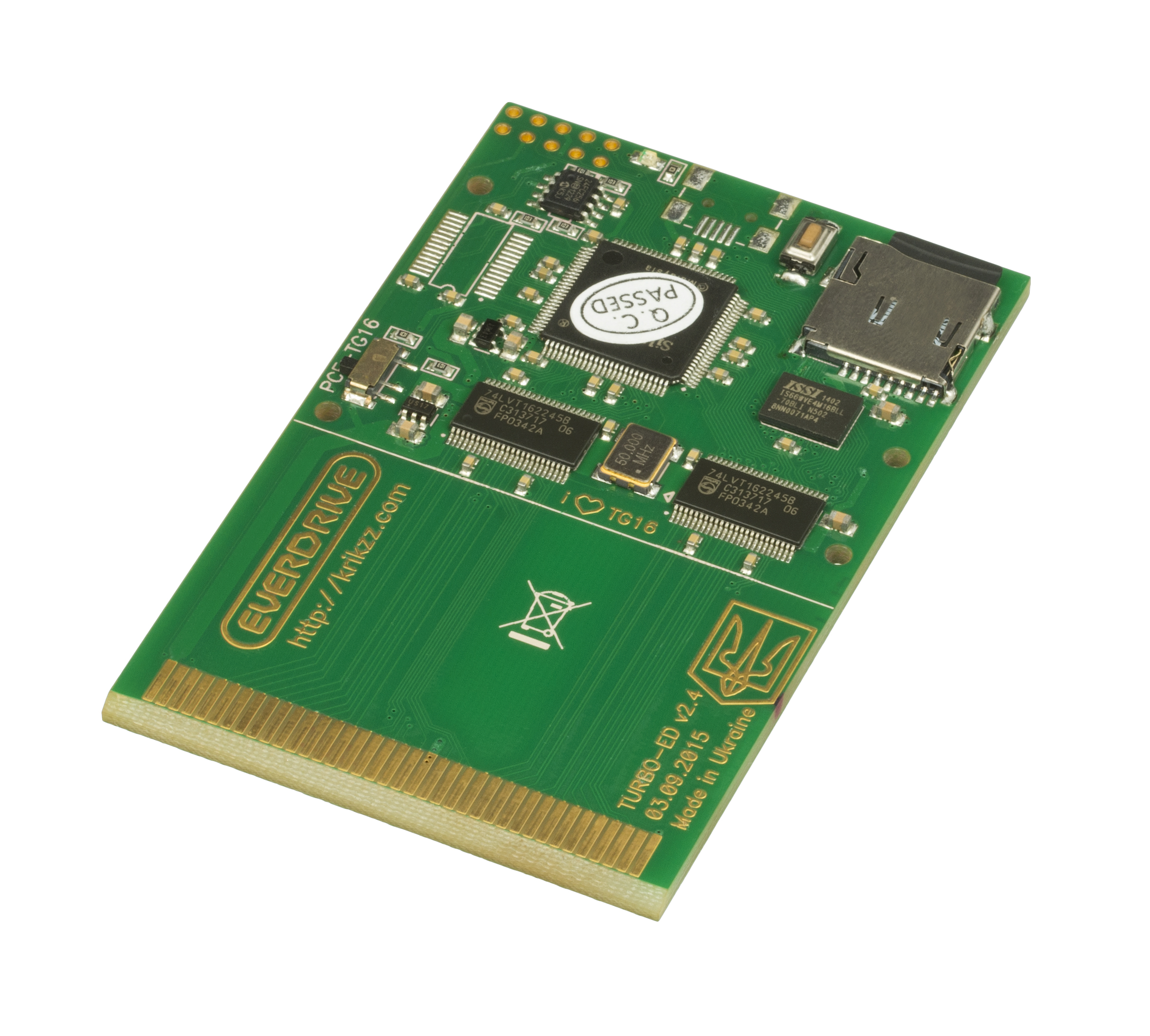 The Turbo EverDrive (v2.4), a ROM cart for the TurboGrafx-16/PC Engine video game console. Made in the Ukraine by krikzz, the Turbo EverDrive allows you to load game ROMs onto a microSD card and play those games on the original console hardware.